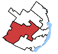 Map of Louis-Saint-Laurent, Quebec